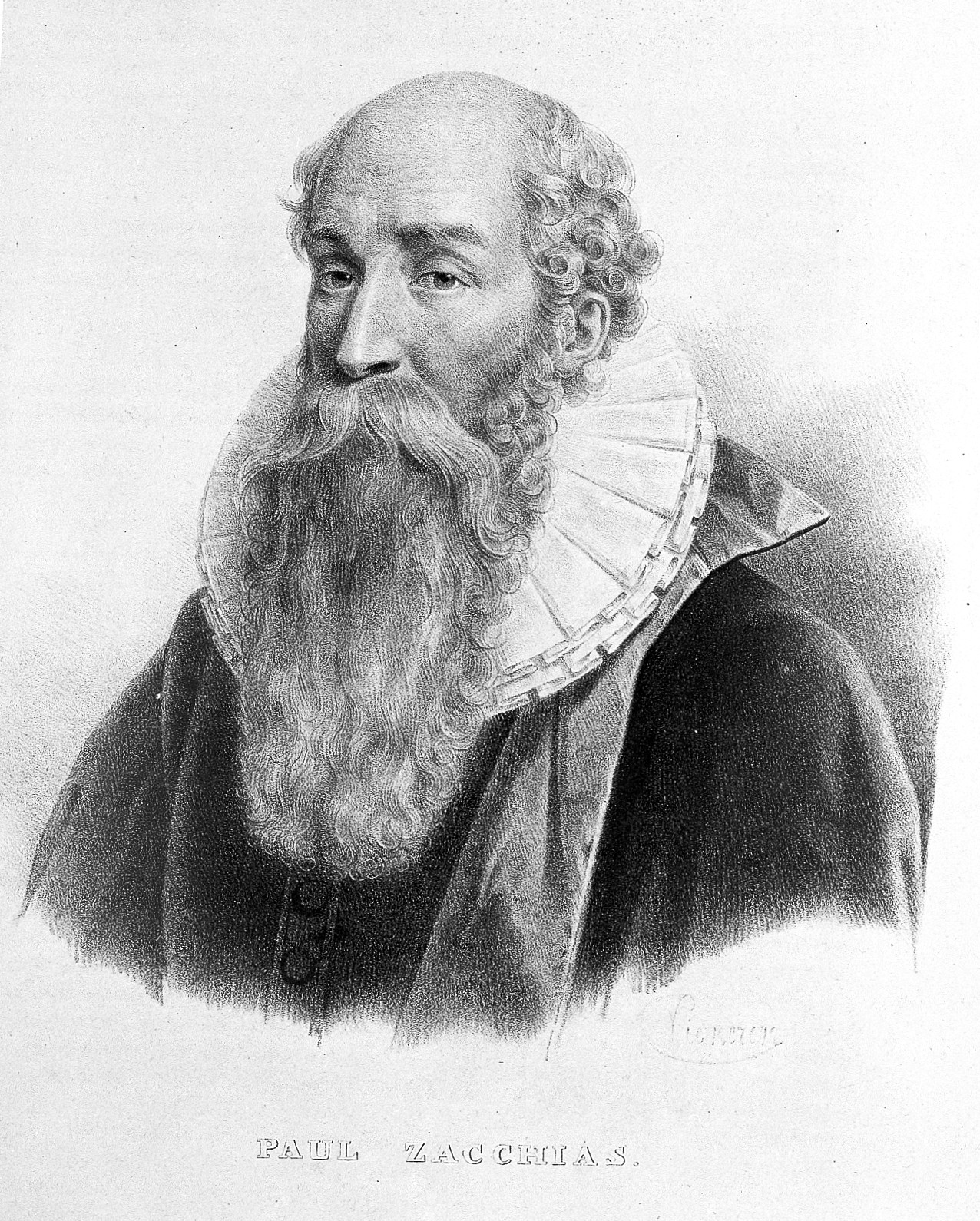 Iconographic Collections